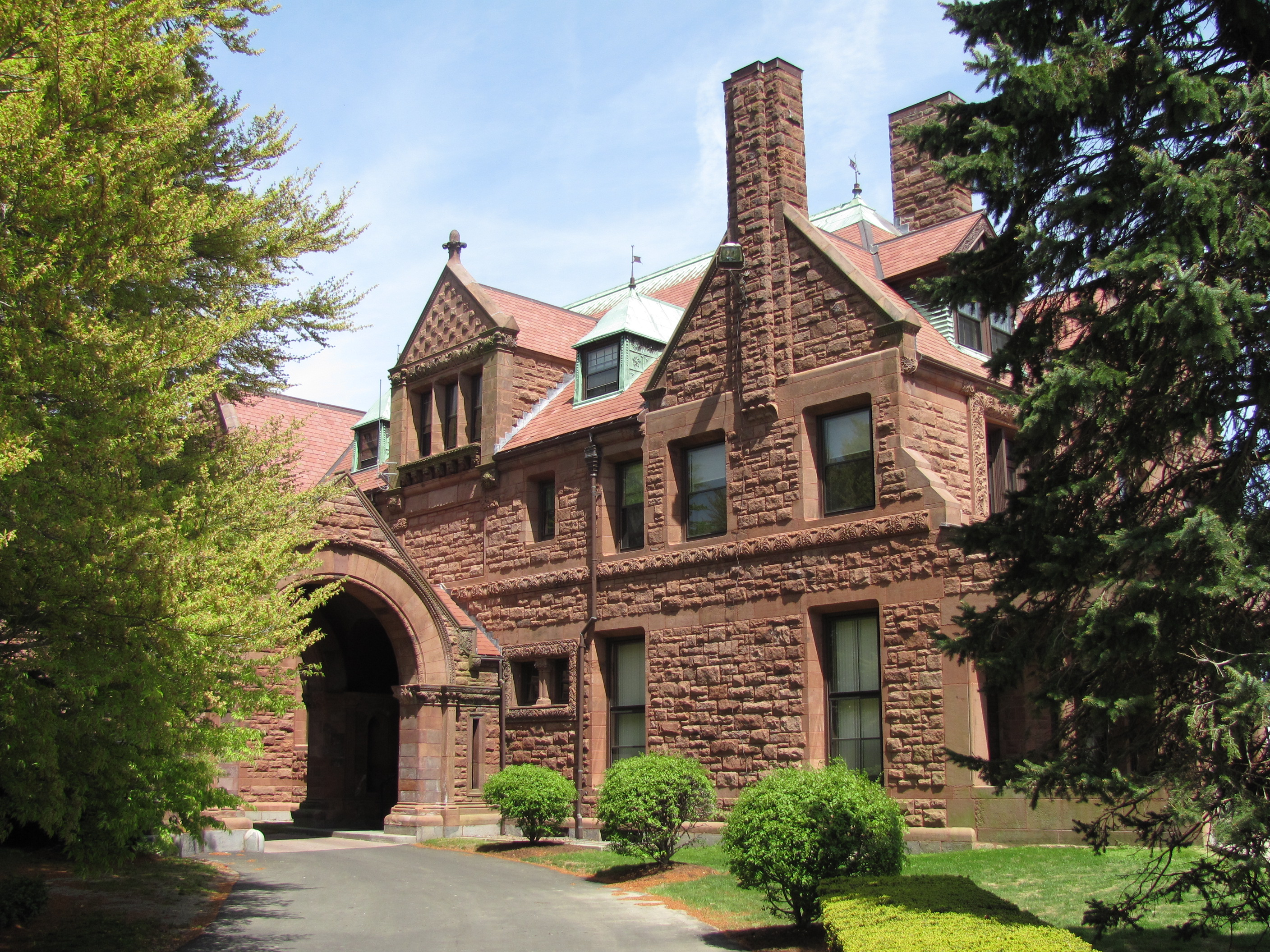 McAuley Hall, Salve Regina University campus, Newport Rhode Island